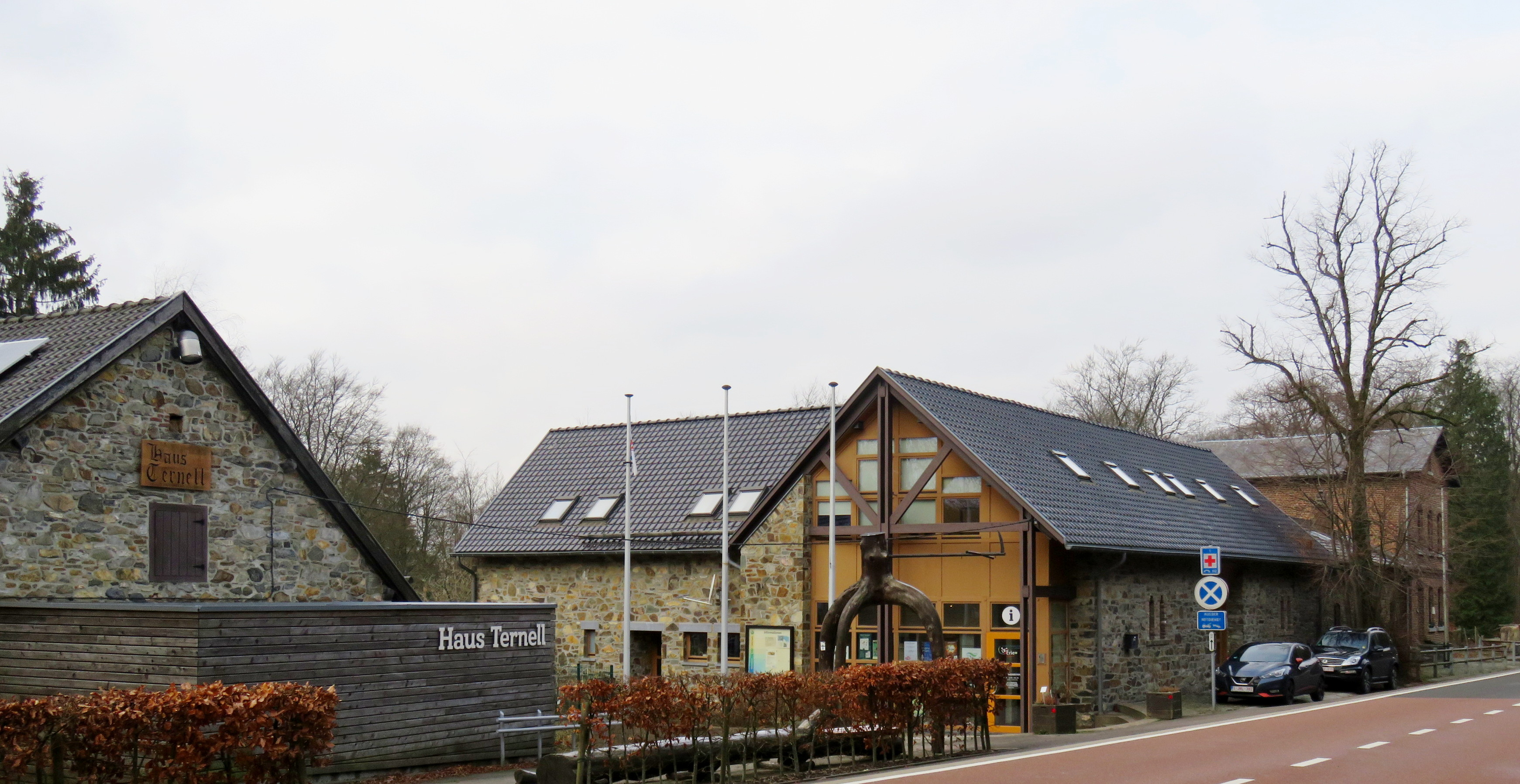 Haus Ternell. On the road from Eupen to Monschau.